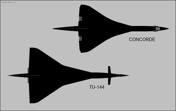 Plan-view silhouette comparison of the Tupolev Tu-144 and BAC/Aerospatiale Concorde